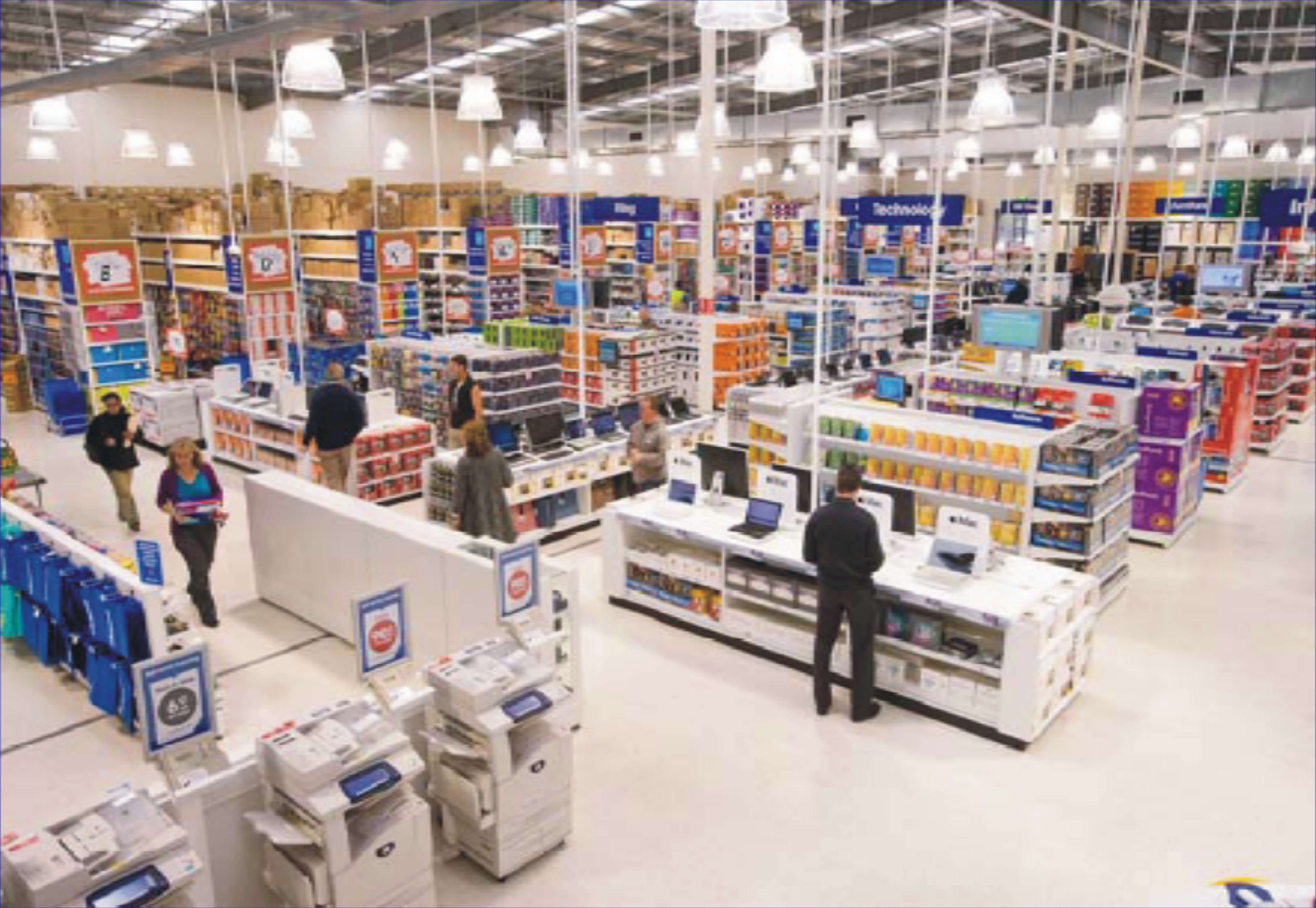 a new officeworks store inside post rebranding